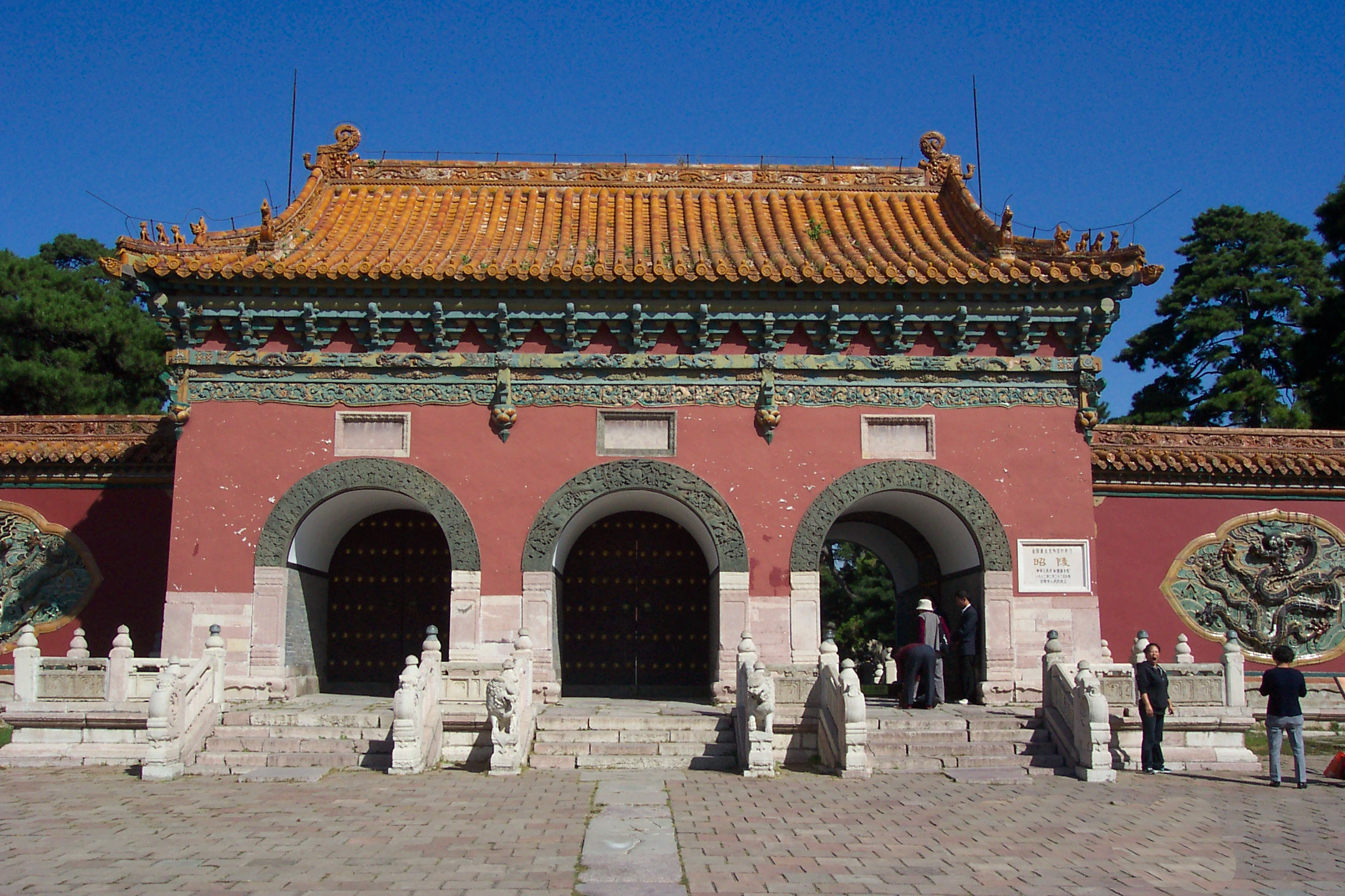 Main Red Gate to Zhao Mausoleum (Qing Dynasty)